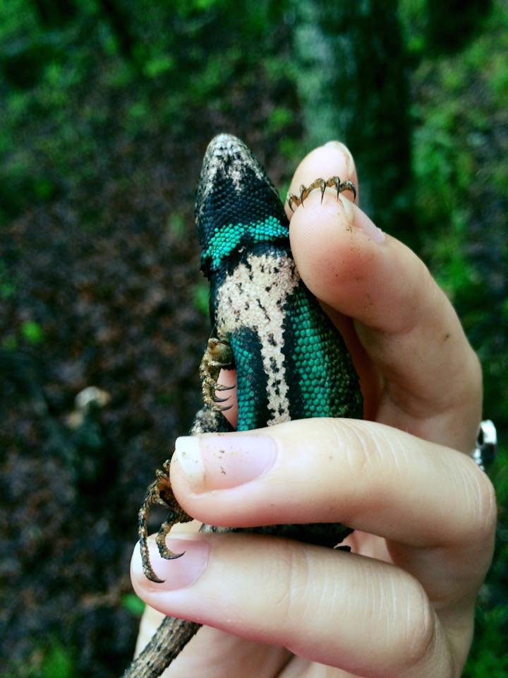 This individual was found near the Hematite Lake trail in Land Between the Lakes National Recreation Area.